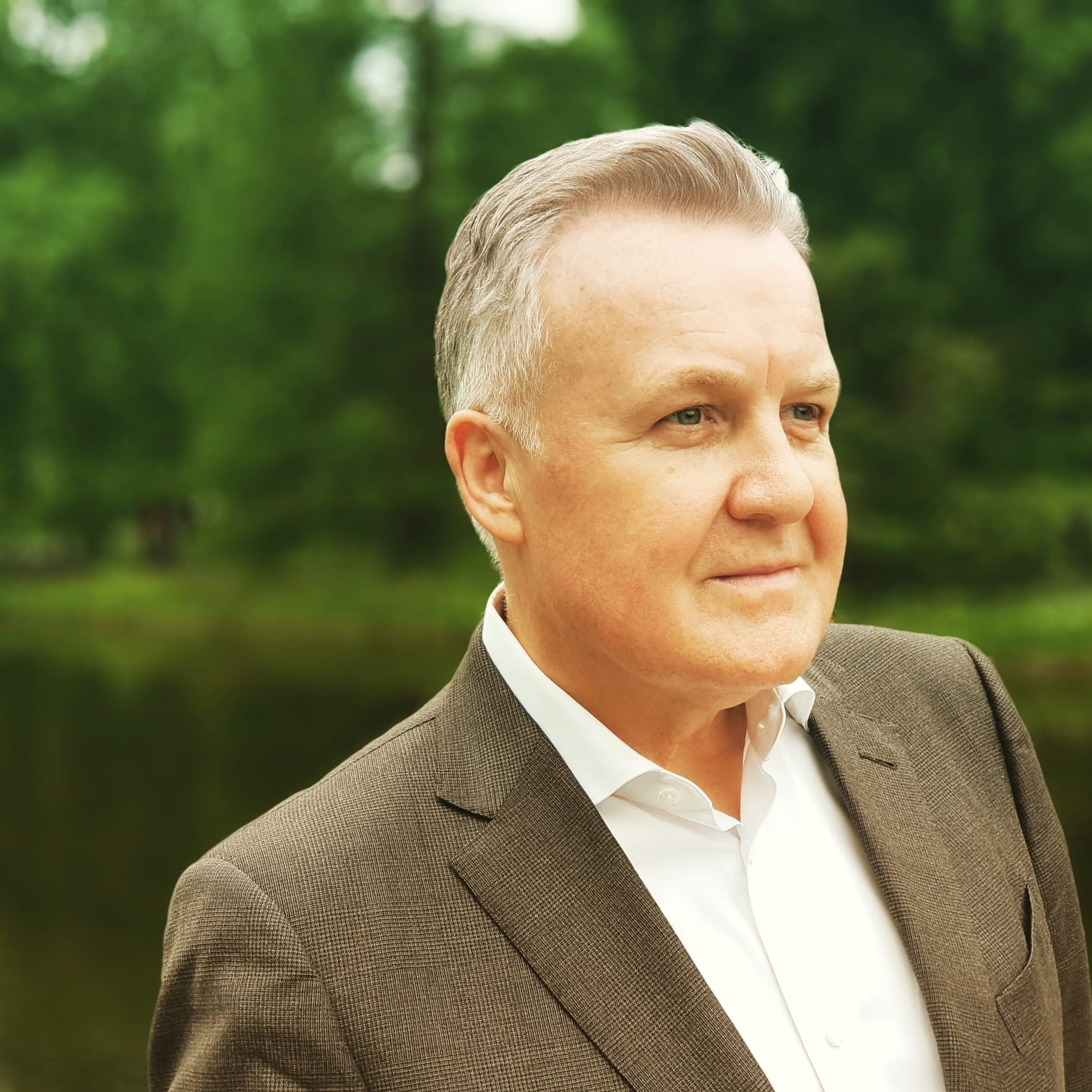 Headshot of Robin Ingle